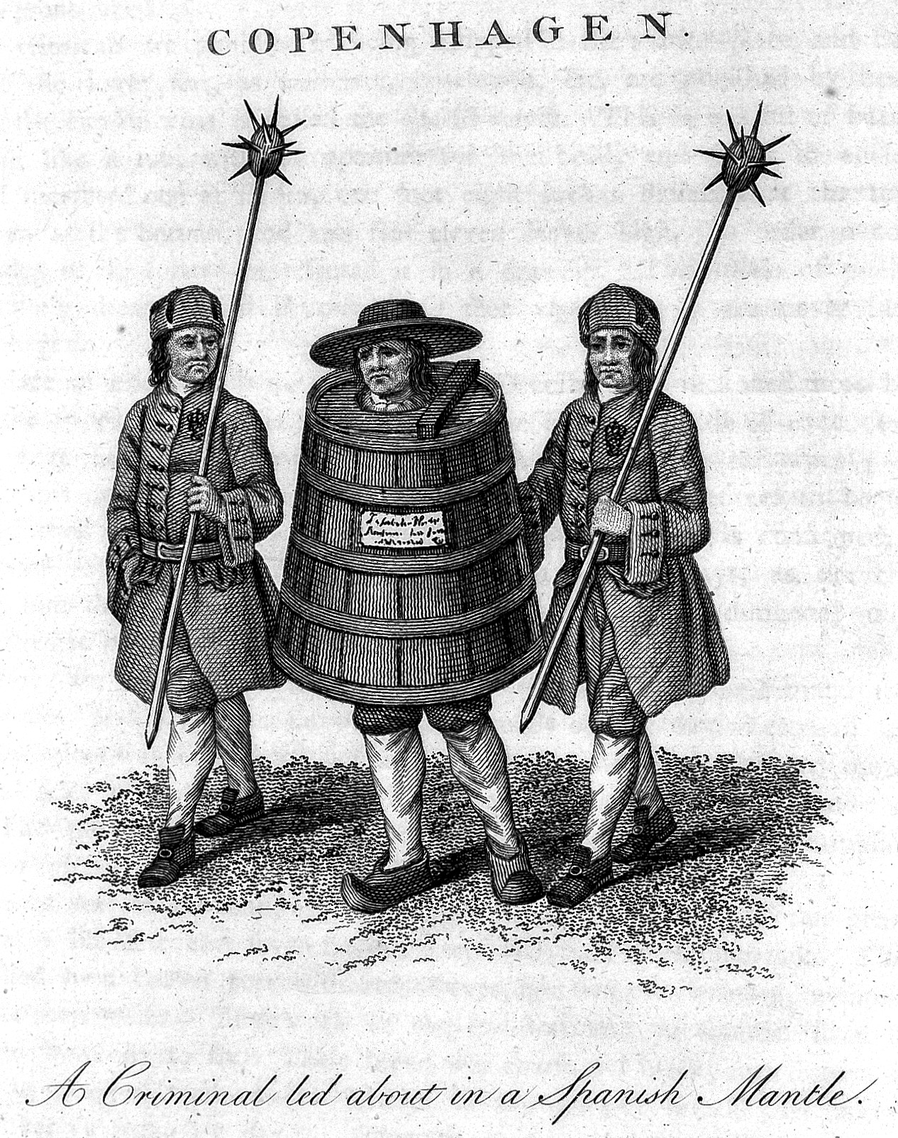 A criminal led about in a Spanish Mantle. Rare Books Keywords: prisons: denmark: copenhagen; John Howard